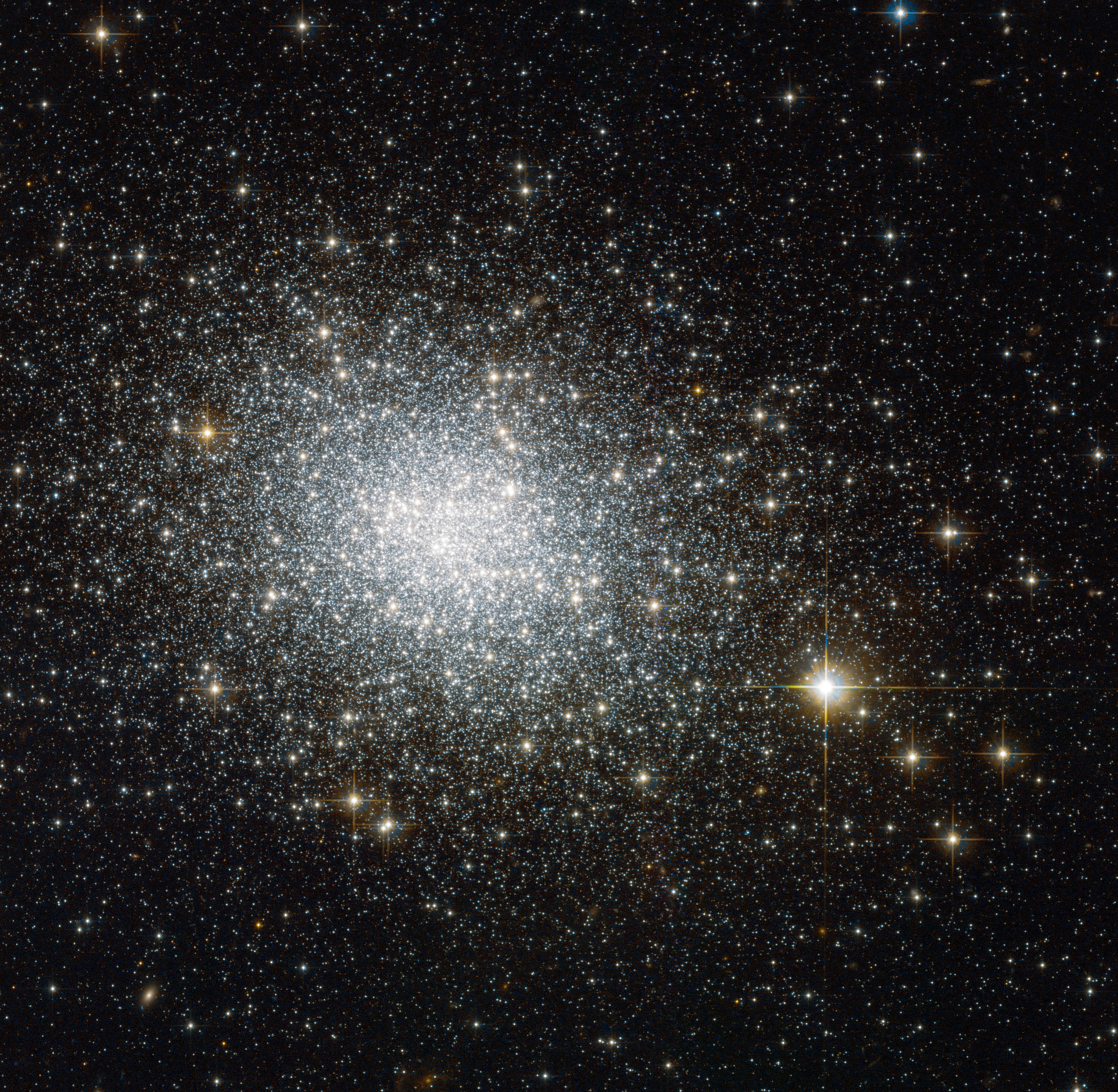 This image shows NGC 121, a globular cluster in the constellation of Tucana (The Toucan). Globular clusters are big balls of old stars that orbit the centres of their galaxies like satellites — the Milky Way, for example, has around 150. NGC 121 belongs to one of our neighbouring galaxies, the Small Magellanic Cloud (SMC). It was discovered in 1835 by English astronomer John Herschel, and in recent years it has been studied in detail by astronomers wishing to learn more about how stars form and evolve. Stars do not live forever — they develop differently depending on their original mass. In many clusters, all the stars seem to have formed at the same time, although in others we see distinct populations of stars that are different ages. By studying old stellar populations in globular clusters, astronomers can effectively use them as tracers for the stellar population of their host galaxies. With an object like NGC 121, which lies close to the Milky Way, Hubble is able to resolve individual stars and get a very detailed insight. NGC 121 is around 10 billion years old, making it the oldest cluster in its galaxy; all of the SMC's other globular clusters are 8 billion years old or younger. However, NGC 121 is still several billions of years younger than its counterparts in the Milky Way and in other nearby galaxies like the Large Magellanic Cloud. The reason for this age gap is not completely clear, but it could indicate that cluster formation was initially delayed for some reason in the SMC, or that NGC 121 is the sole survivor of an older group of star clusters. This image was taken using Hubble’s Advanced Camera for Surveys (ACS). A version of this image was submitted to the Hubble’s Hidden Treasures image processing competition by contestant Stefano Campani.